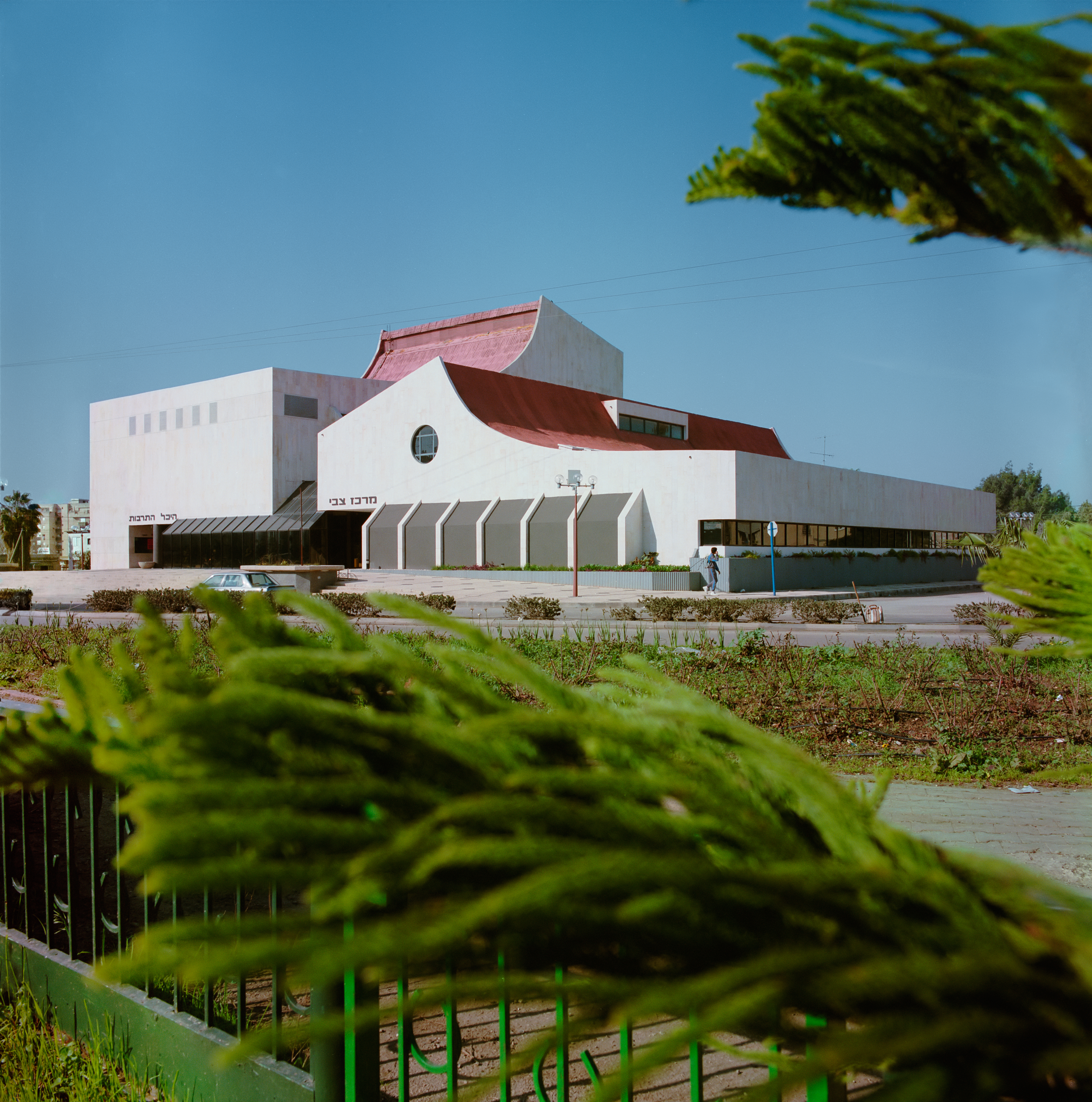 Cultural Center in the city of Afula, Israel.